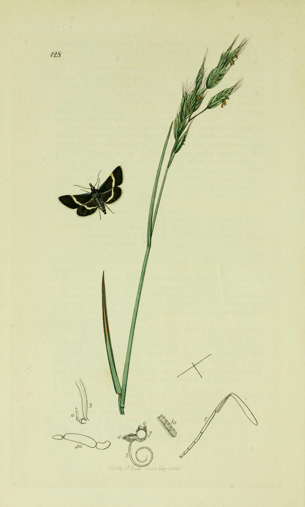 An illustration from British Entomology by John Curtis. Lepidoptera: Pyrausta cingulalis or Pyrausta cingulata (Silver-barred Sable).